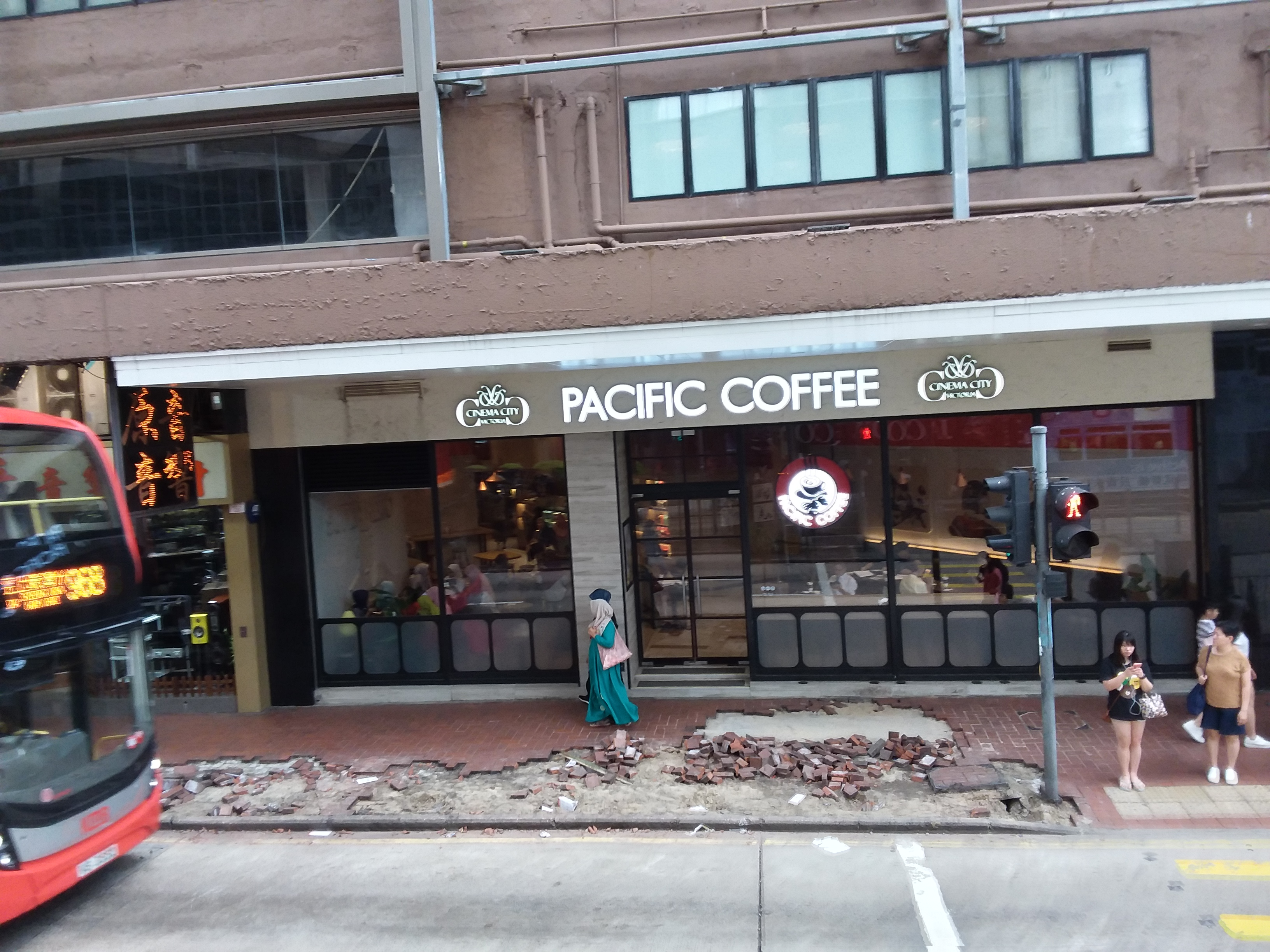 HK tram view CWB Causeway Bay Yee Wo Street in August 2019